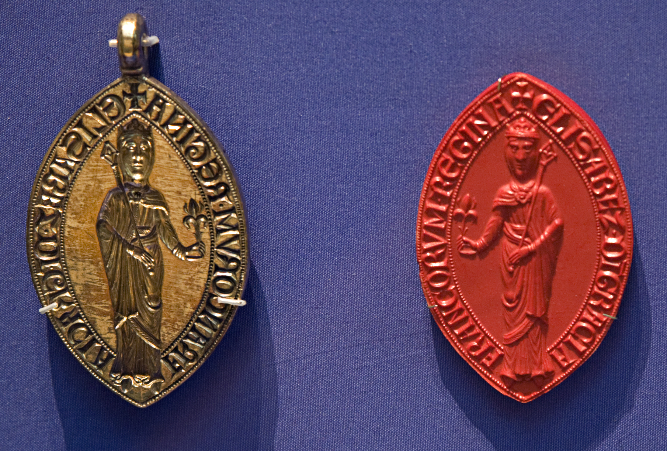 Medieval French seal now in the British Museum. Tag on exhibit reads: "Seal of Isabella of Hainault" and "About 1180. Paris, France. Silver. PE 1970,0904.1" See BM database entry for more details.